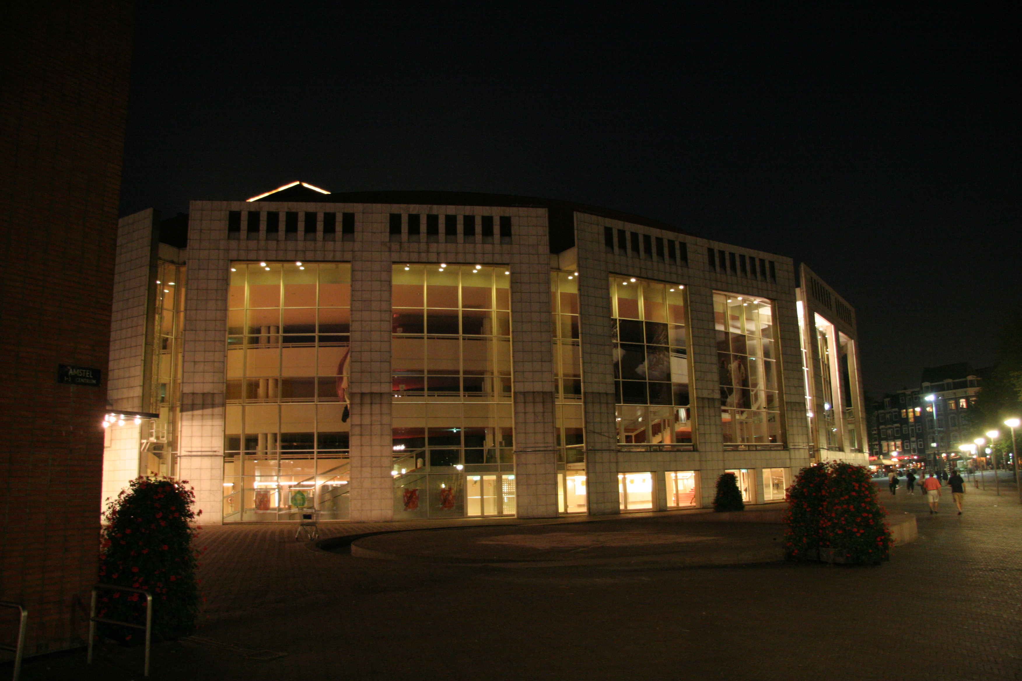 Author: A. J. Haverkamp Subject: The stopera building in Amsterdam, The Netherlands.